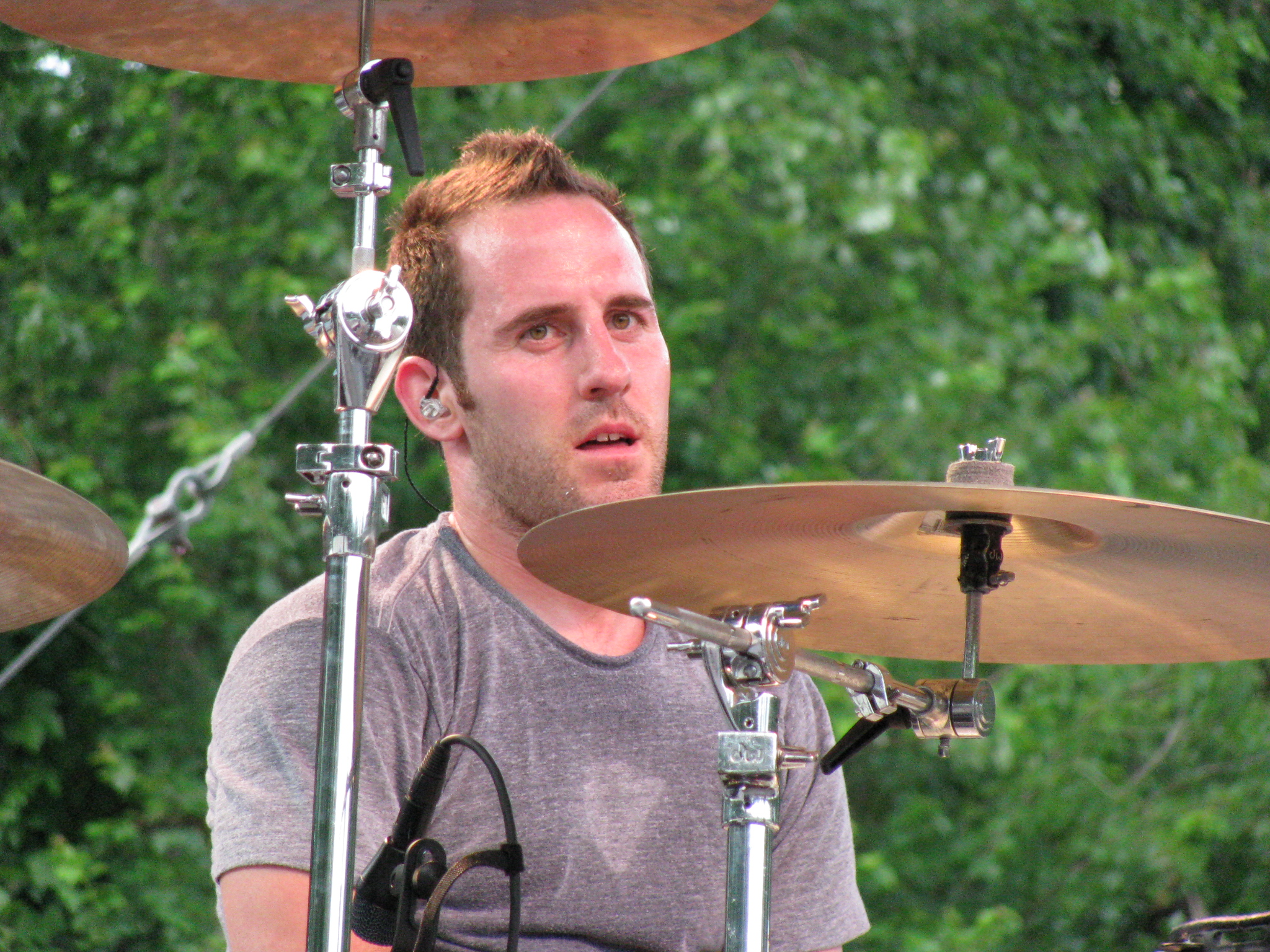 Chuck Comeau of Simple Plan at the band's show at Six Flags New England on June 22, 2008